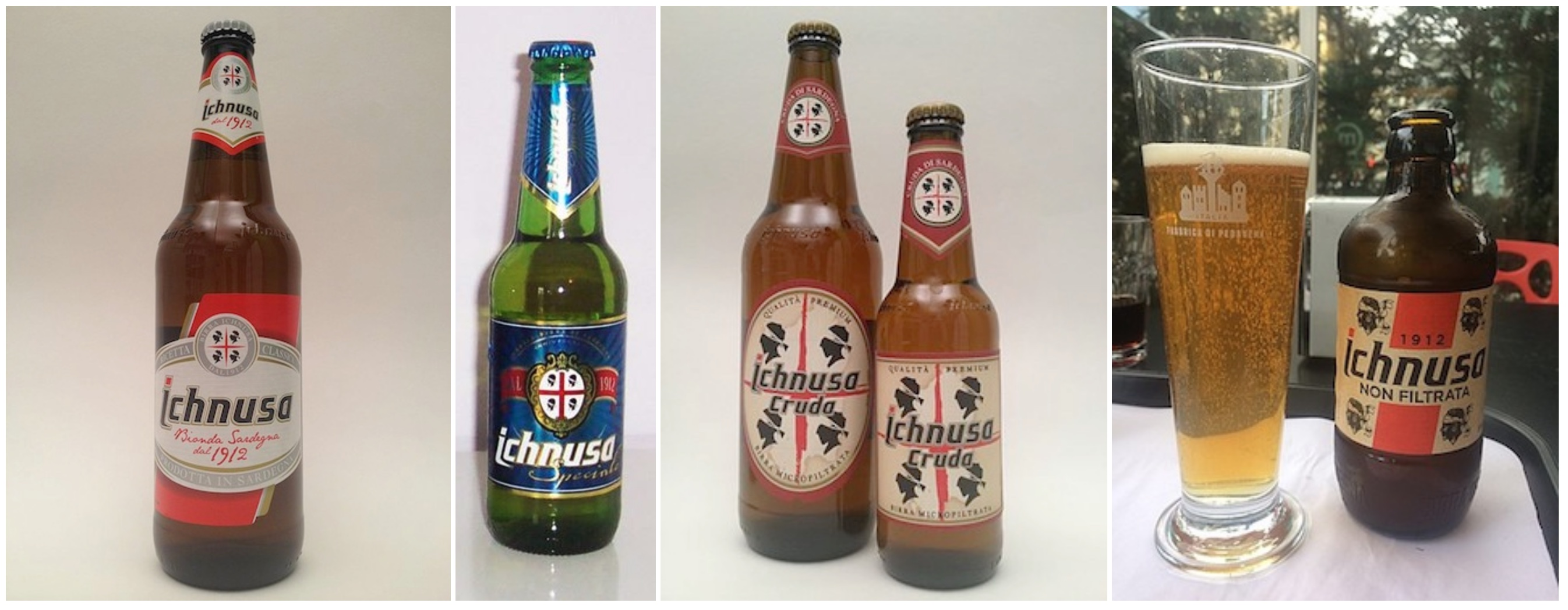 four types of Ichnusa beer; ltr: blonde, special, crude and unfiltered